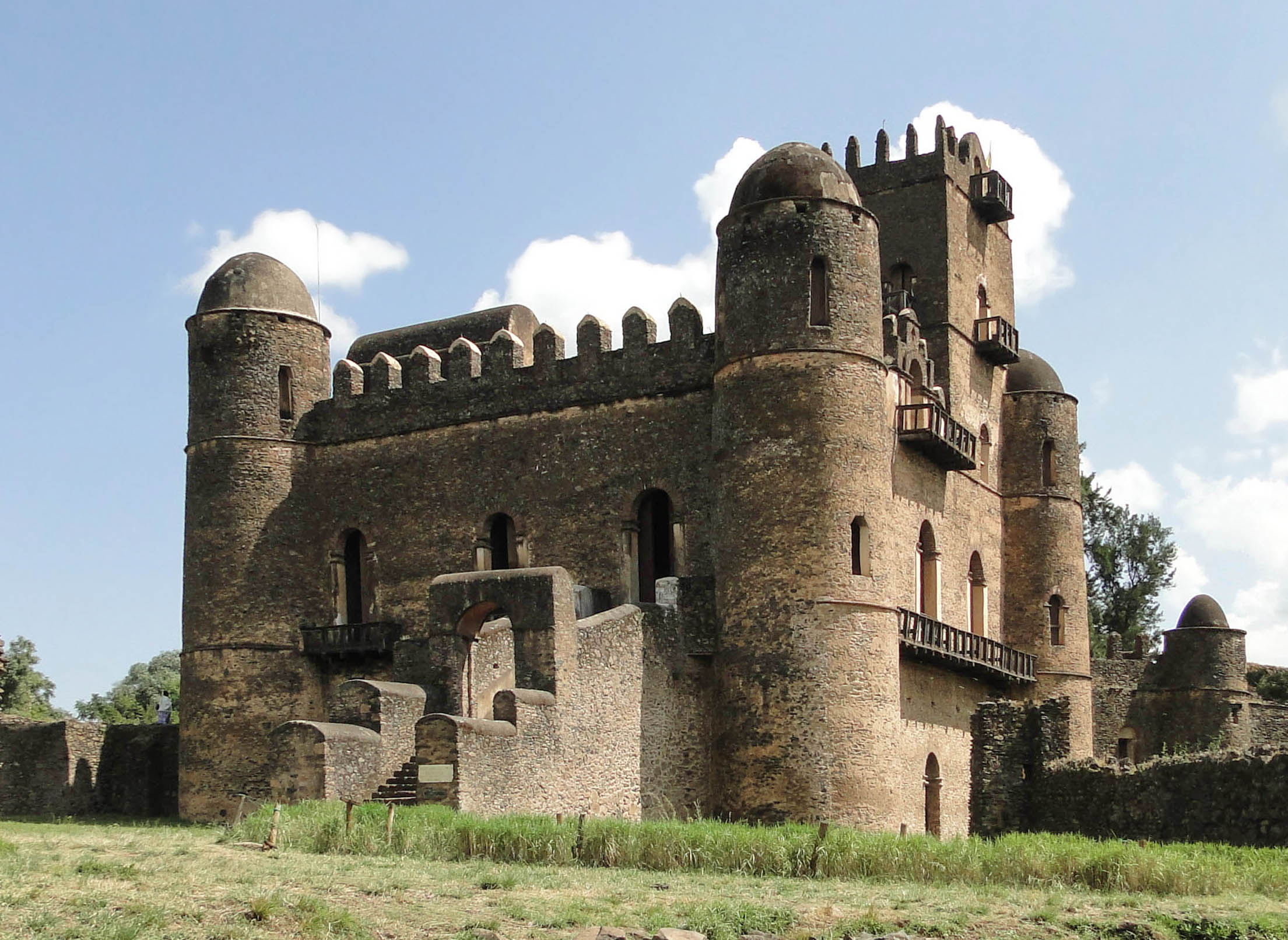 Fasilides Palace in the Fasil Ghebbi, Gondar, Ethiopia